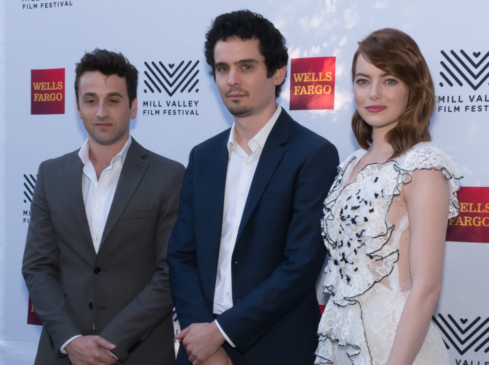 Emma Stone, Justin Hurwitz, Damien Chazelle on 39th Mill Valley Film Festival